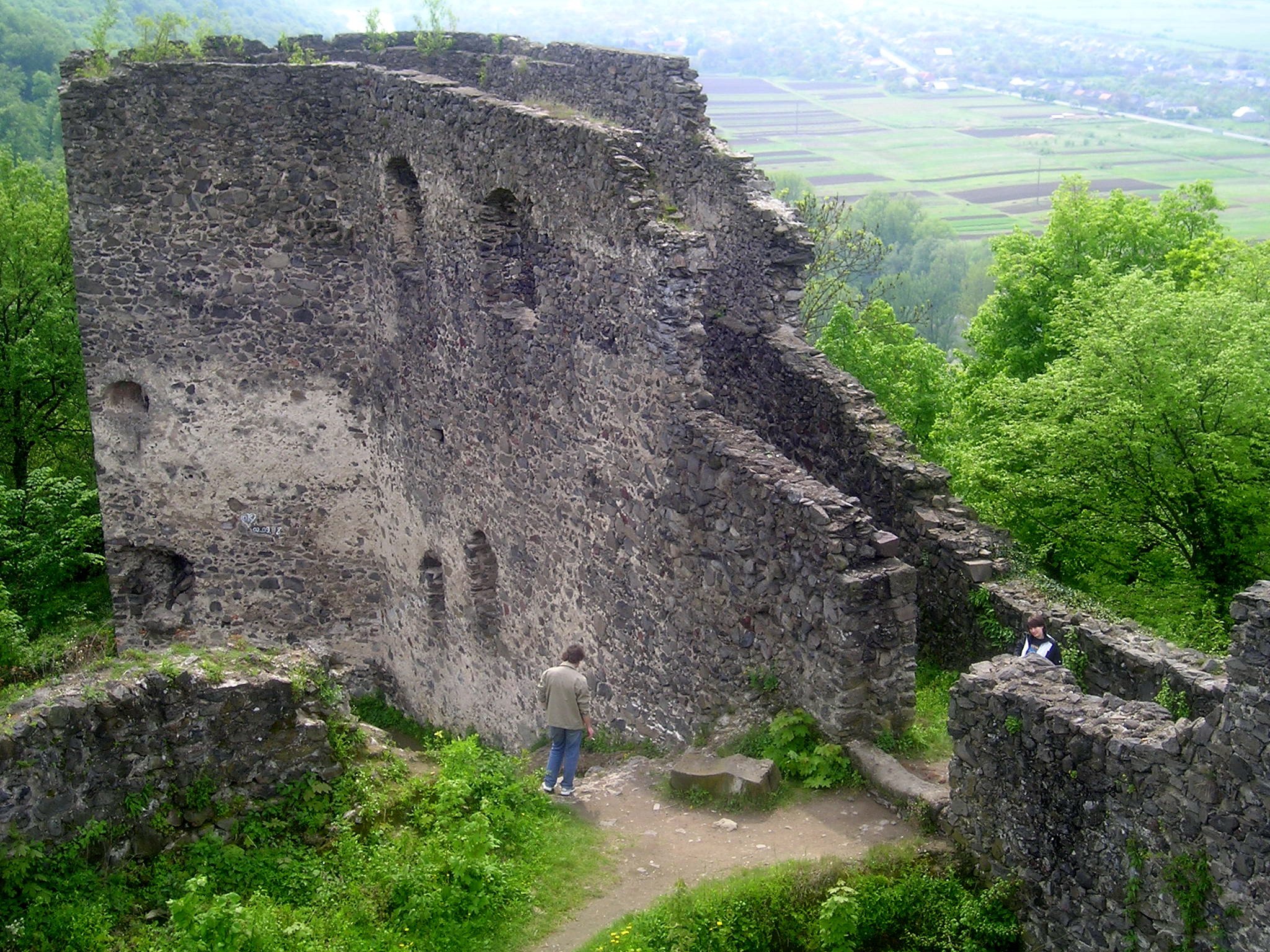 Ukraine. Castle of Nevitske.